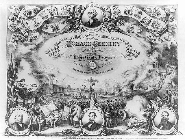 Campaign print for Horace Greeley. Print on wove paper (lithograph), sheet 48.3 x 58.1 cm.